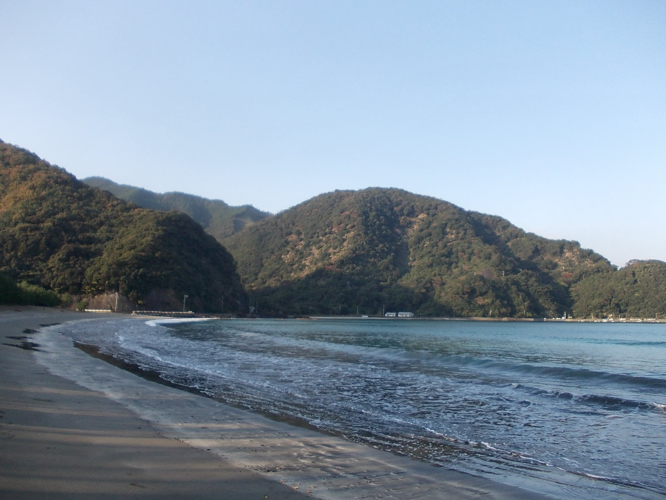 Hatōzu Beach, Saiki, Oita, Japan